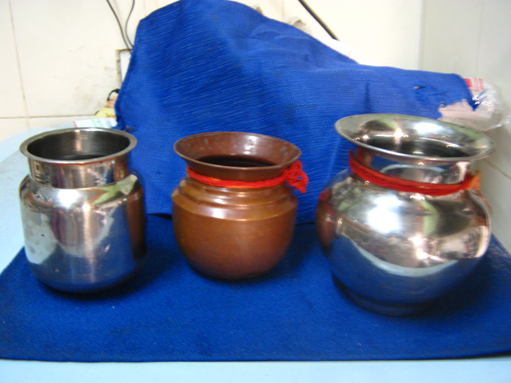 utensils used in Indian kitchen.